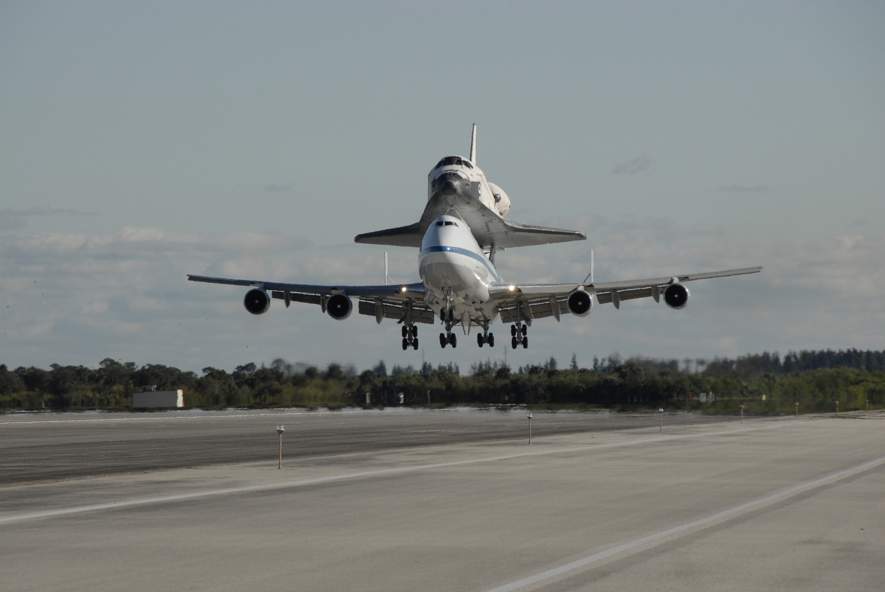 Space Shuttle Endeavour touches down at the Kennedy Space Center on top of one of NASA's 747 Shuttle Carrier Aircraft December 12, 2008 at the conclusion of the STS-126 mission.